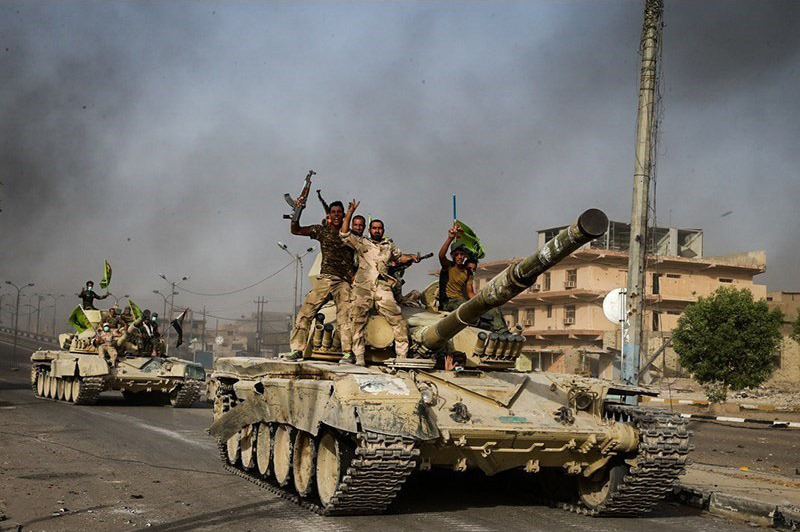 Liberation of Fallujah by Iraqi Armed Forces and The People's Mobilization (Shi'a militias)